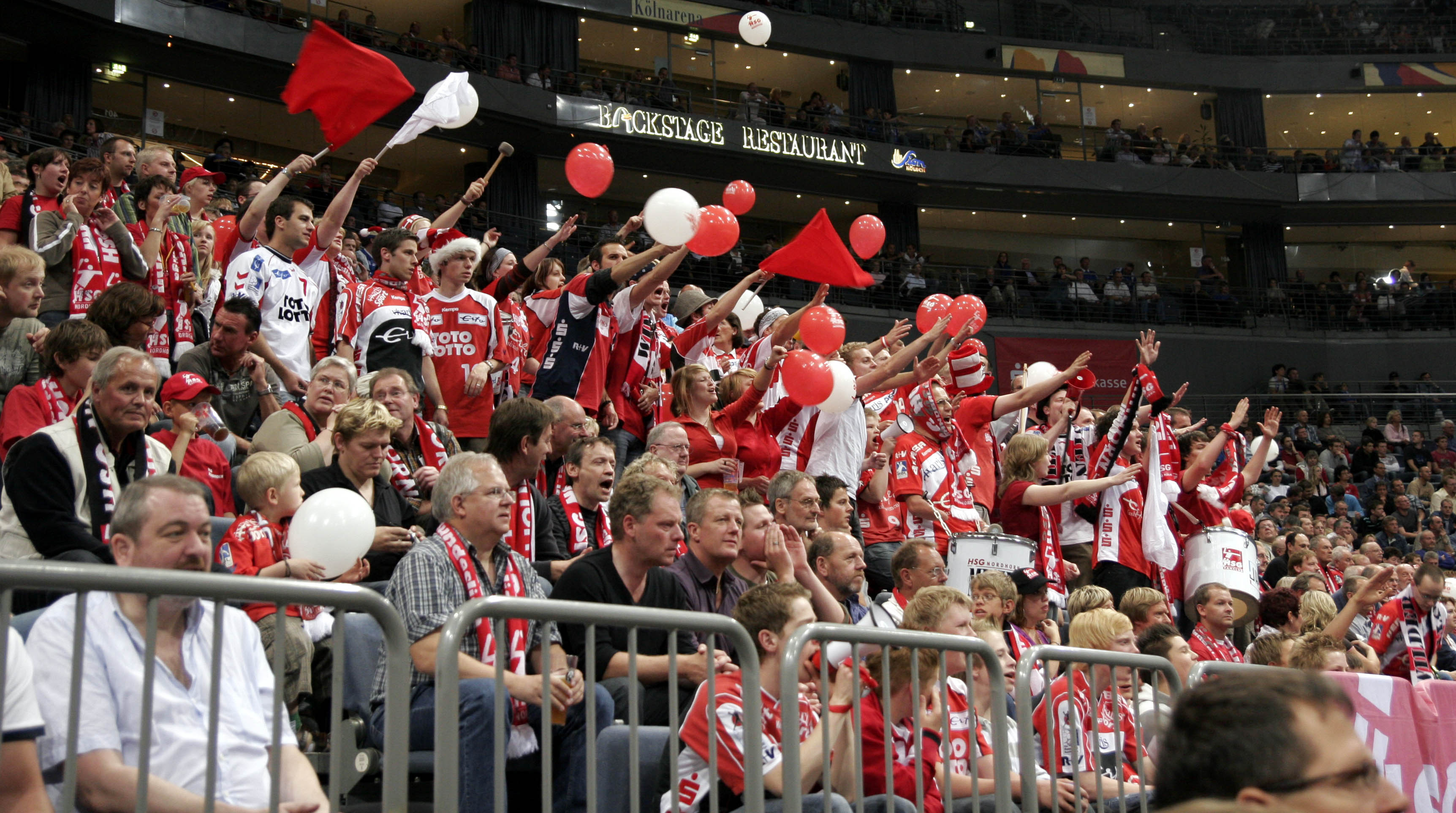 Fans of HSG Nordhorn in the Kölnarena during a handball match vers. VfL Gummersbach